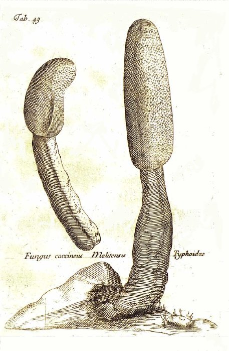 Illustration (tab. 43) of "Fungus coccineus Melitensis..." (= Cynomorium coccineum) in the cited work of P. Boccone